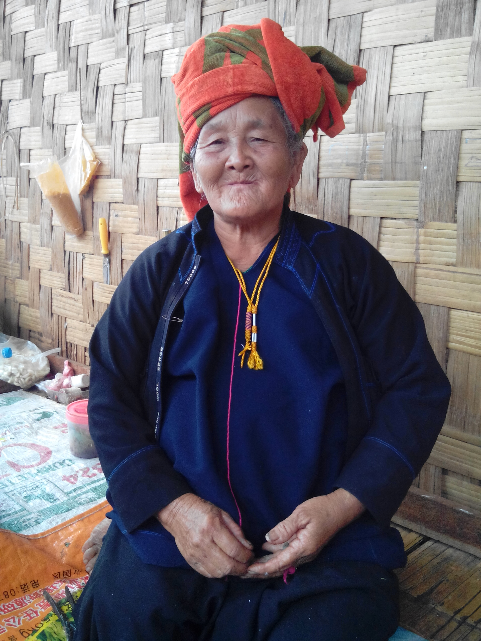 Volunteer Pa-O Grandma at Htam Sam Cave Food Donation, Hopone, Pa'O Self-Administered Zone, Shan State မြန်မာဘာသာ: ထမ်းဆန်းဂူ စတုဒီသာရှိ လုပ်အားပေး ပအိုဝ်း အဖွားအို၊ ဟိုပုံး၊ ပအိုဝ်းကိုယ်ပိုင်အုပ်ချုပ်ခွင့်ရဒေသ၊ ရှမ်းပြည်နယ်